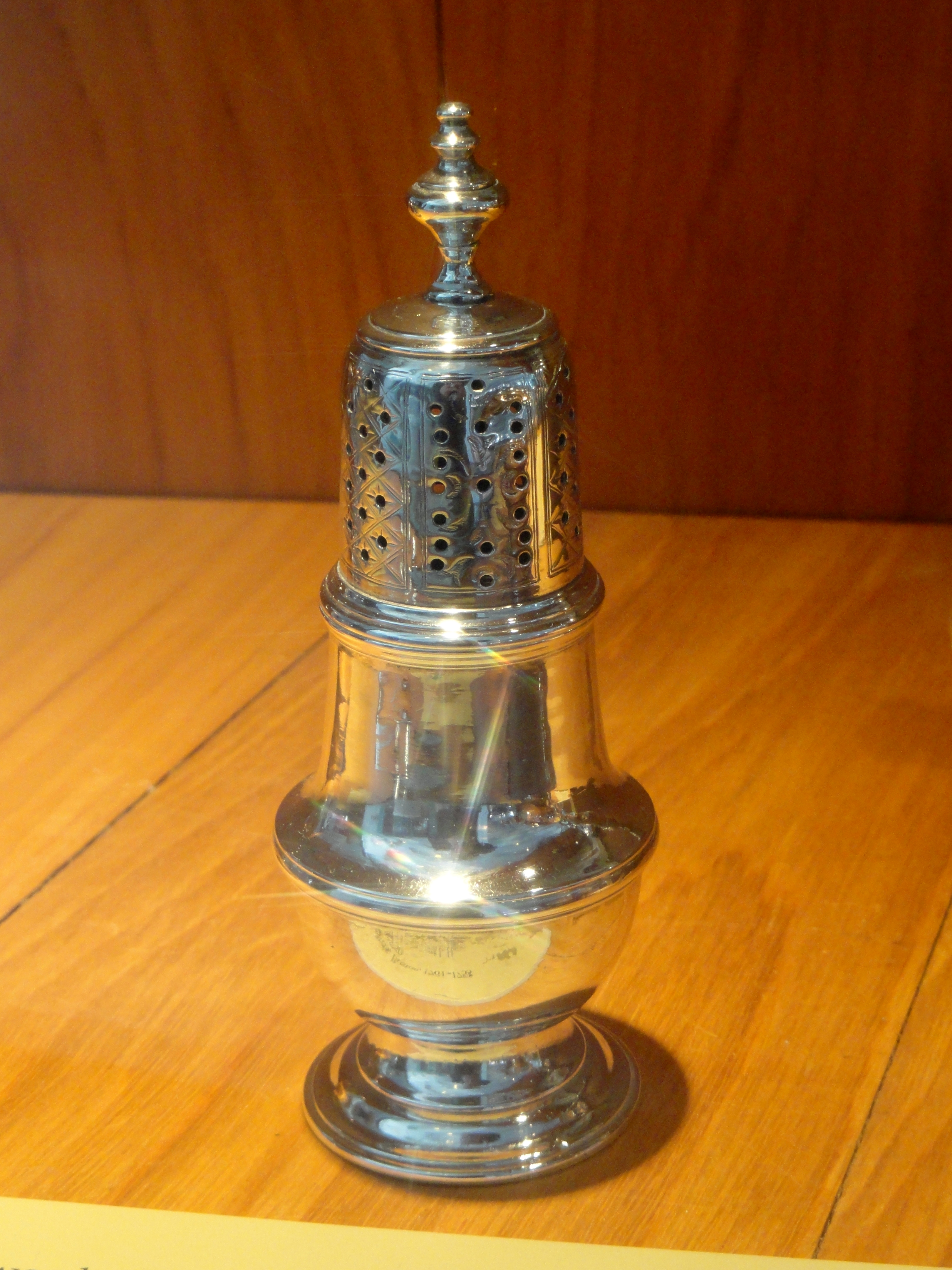 Caster, Thomas Edwards, Boston, c. 1750, silver - Hood Museum of Art, Dartmouth College, Hanover, New Hampshire, USA. This work is in the public domain because the artist died more than 70 years ago.